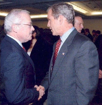 Representative Bob Barr and President George W. Bush shake hands.